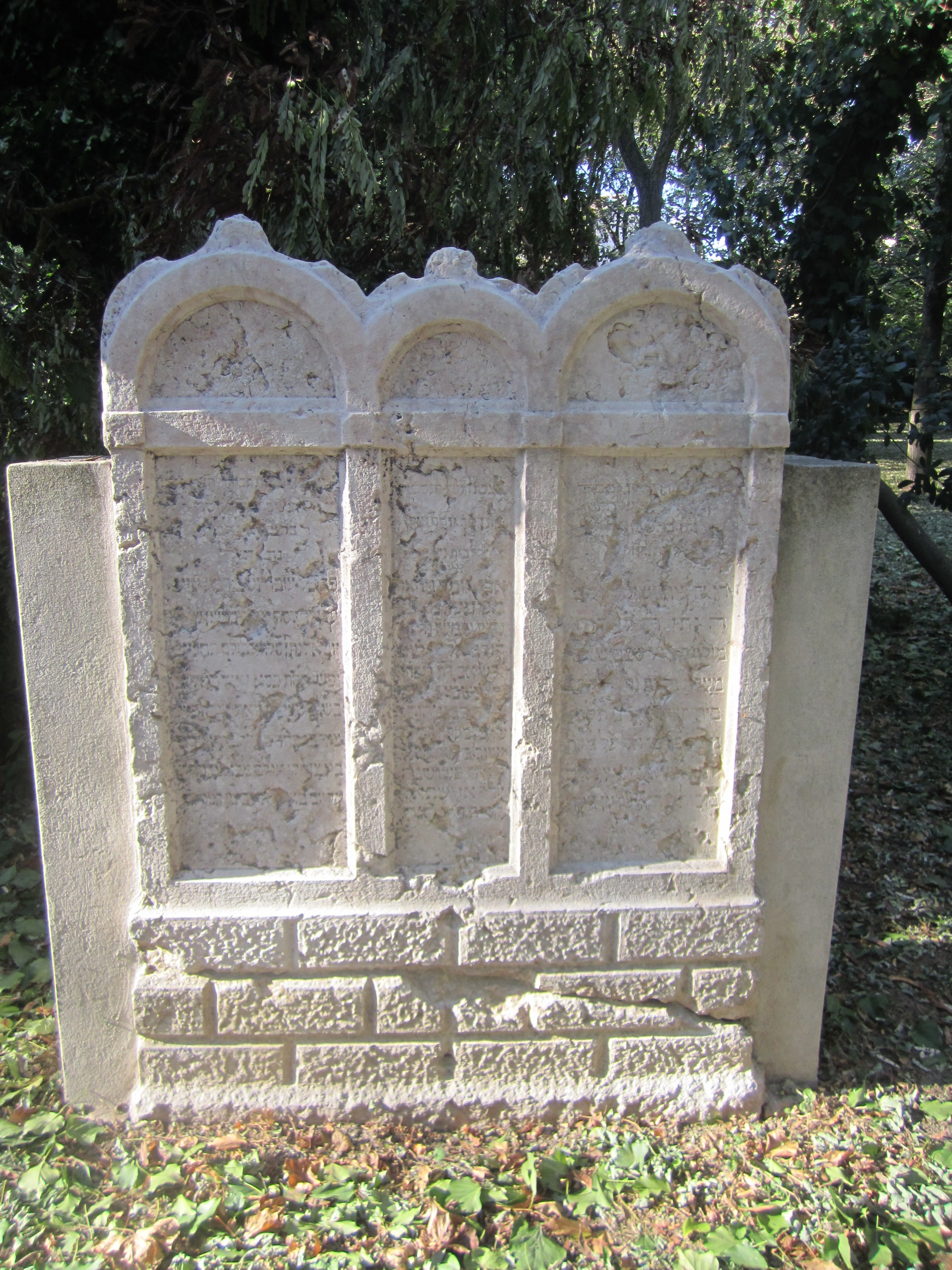 Gravestone of Donato Donati in Finale Emilia Jewish cemetery after restauration